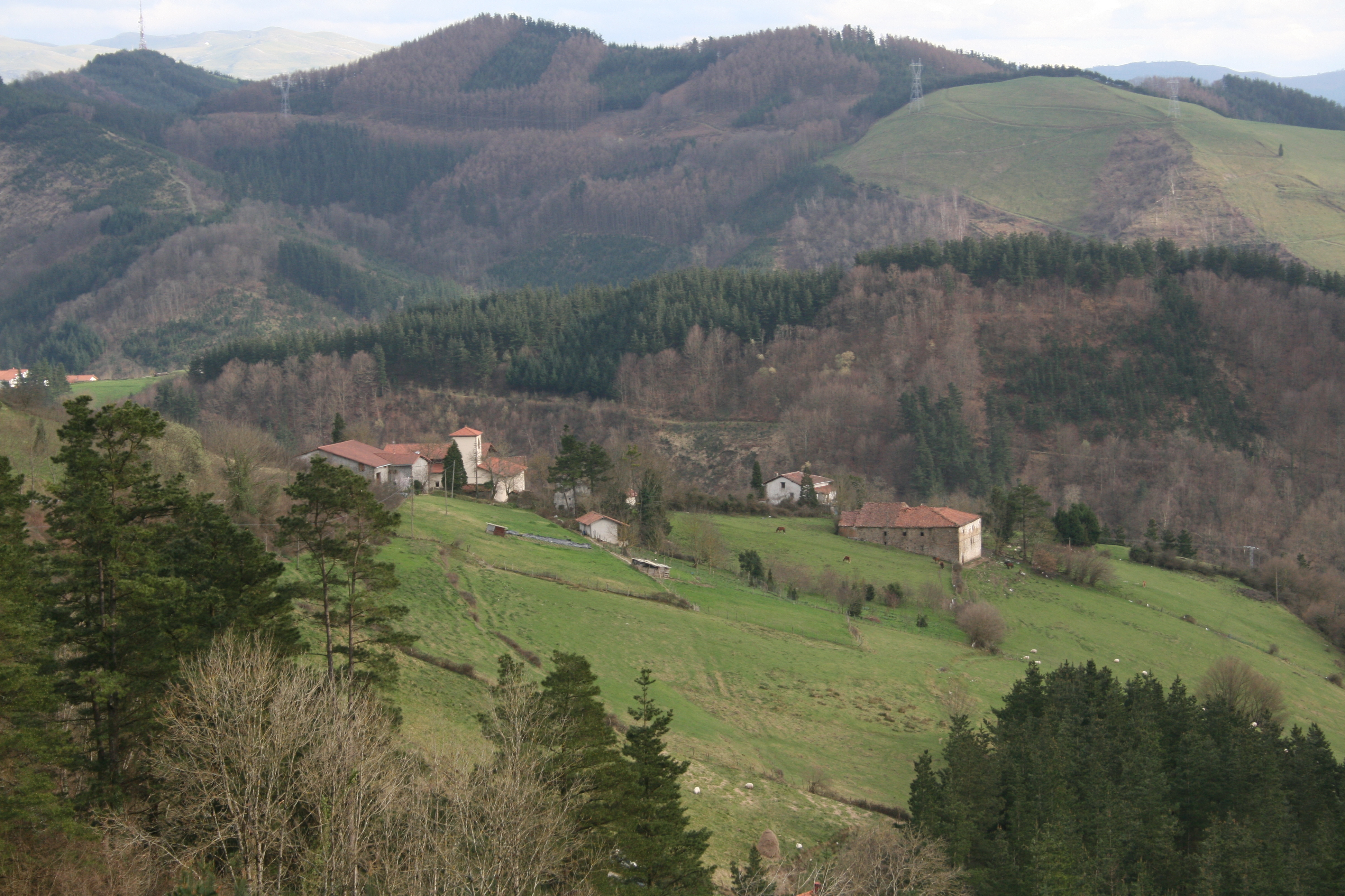 Astigarreta (Beasain, Gipuzkoa, Basque Country) seen from Mandubia